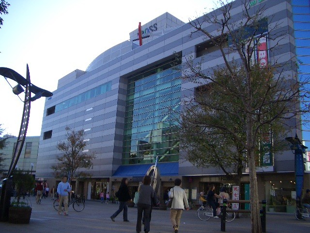 Yamato Station, on the Sotetsu Main Line and Odakyu Enosima Line, Yamato, Kanagawa 大和駅 (神奈川県)